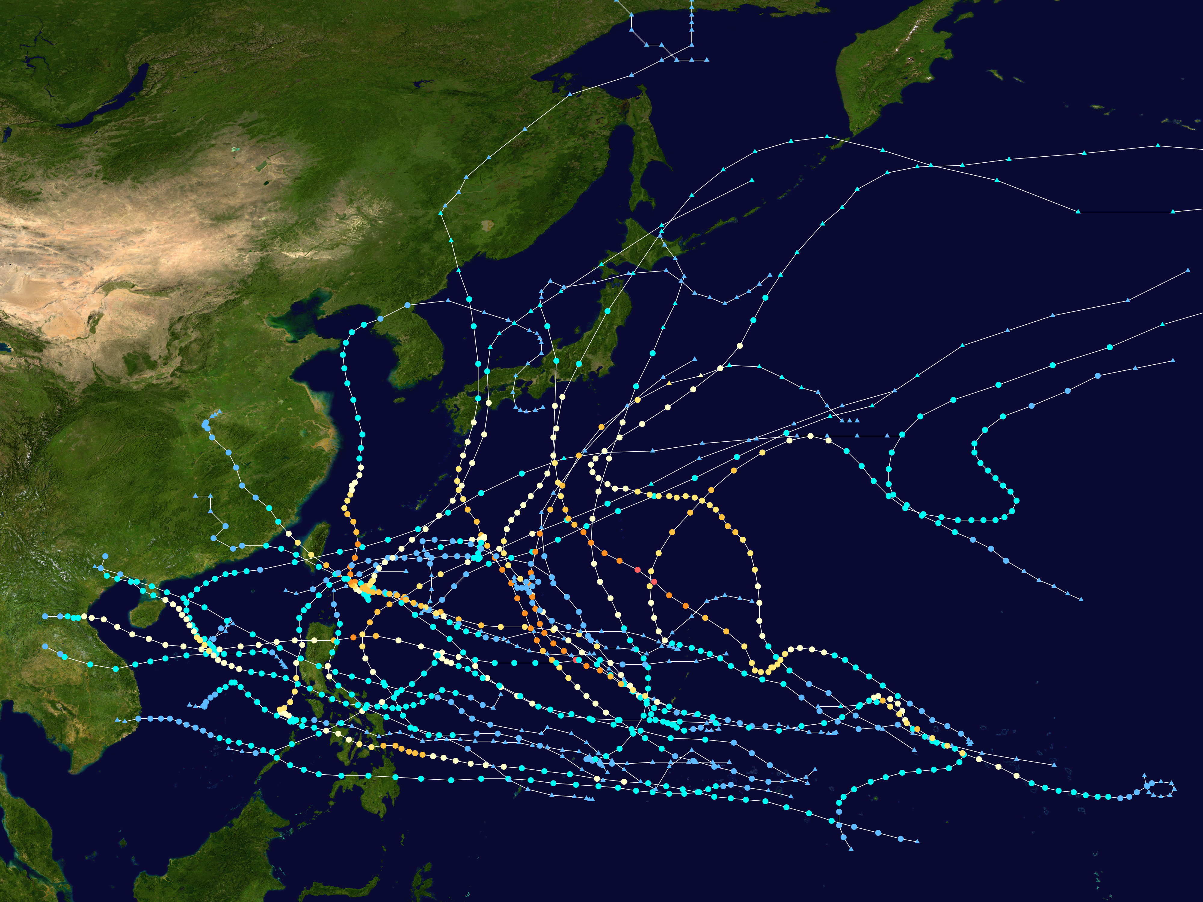 This map shows the tracks of all tropical cyclones in the 1982 Pacific typhoon season. The points show the location of each storm at 6-hour intervals. The colour represents the storm's maximum sustained wind speeds as classified in the Saffir-Simpson Hurricane Scale (see below), and the shape of the data points represent the type of the storm. Saffir–Simpson scale Tropical depression≤38 mph≤62 km/h Category 3111–129 mph178–208 km/h Tropical storm39–73 mph63–118 km/h Category 4130–156 mph209–251 km/h Category 174–95 mph119–153 km/h Category 5≥157 mph≥252 km/h Category 296–110 mph154–177 km/h Unknown Storm type Tropical cyclone Subtropical cyclone Extratropical cyclone / Remnant low / Tropical disturbance / Monsoon depression